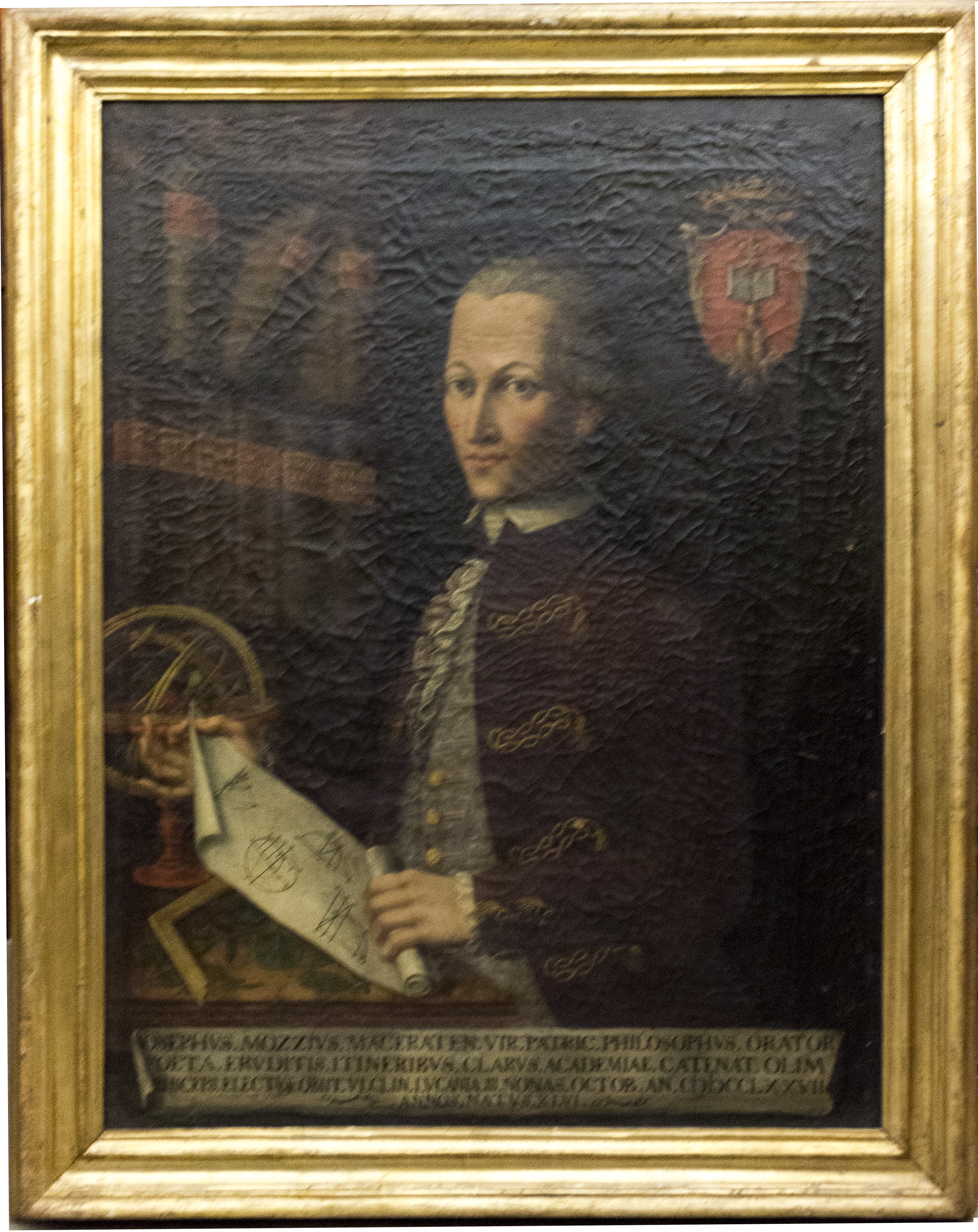 mozzi borgetti